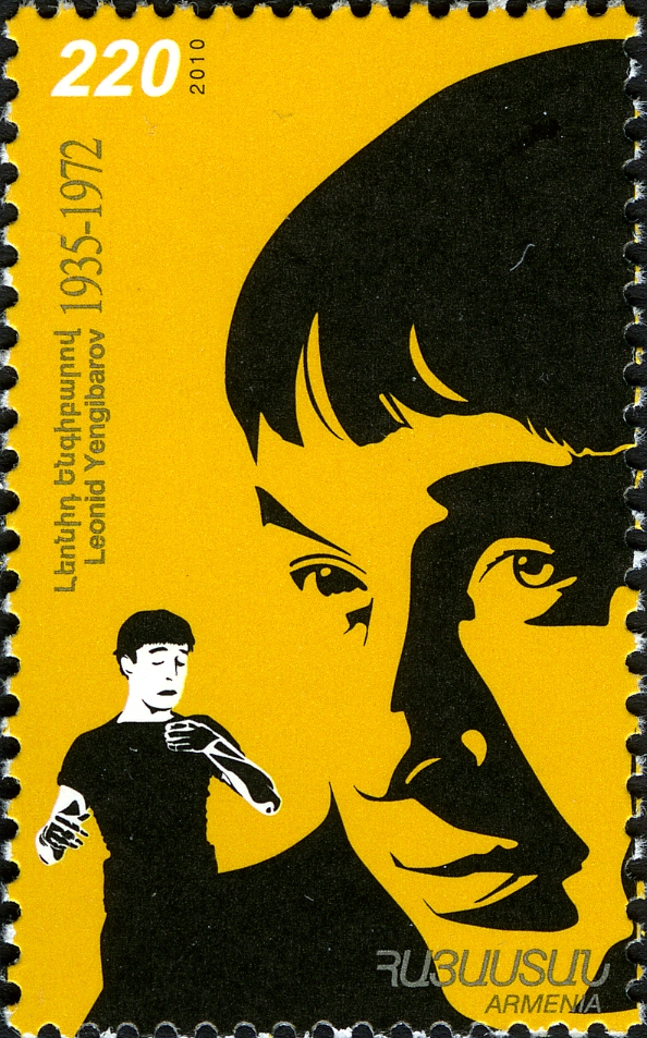 75th Anniversary of Leonid Yengibarov